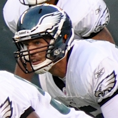 Donovan McNabb is in as QB during the Philadelphia Eagles' 2009 summer scrimmage game.